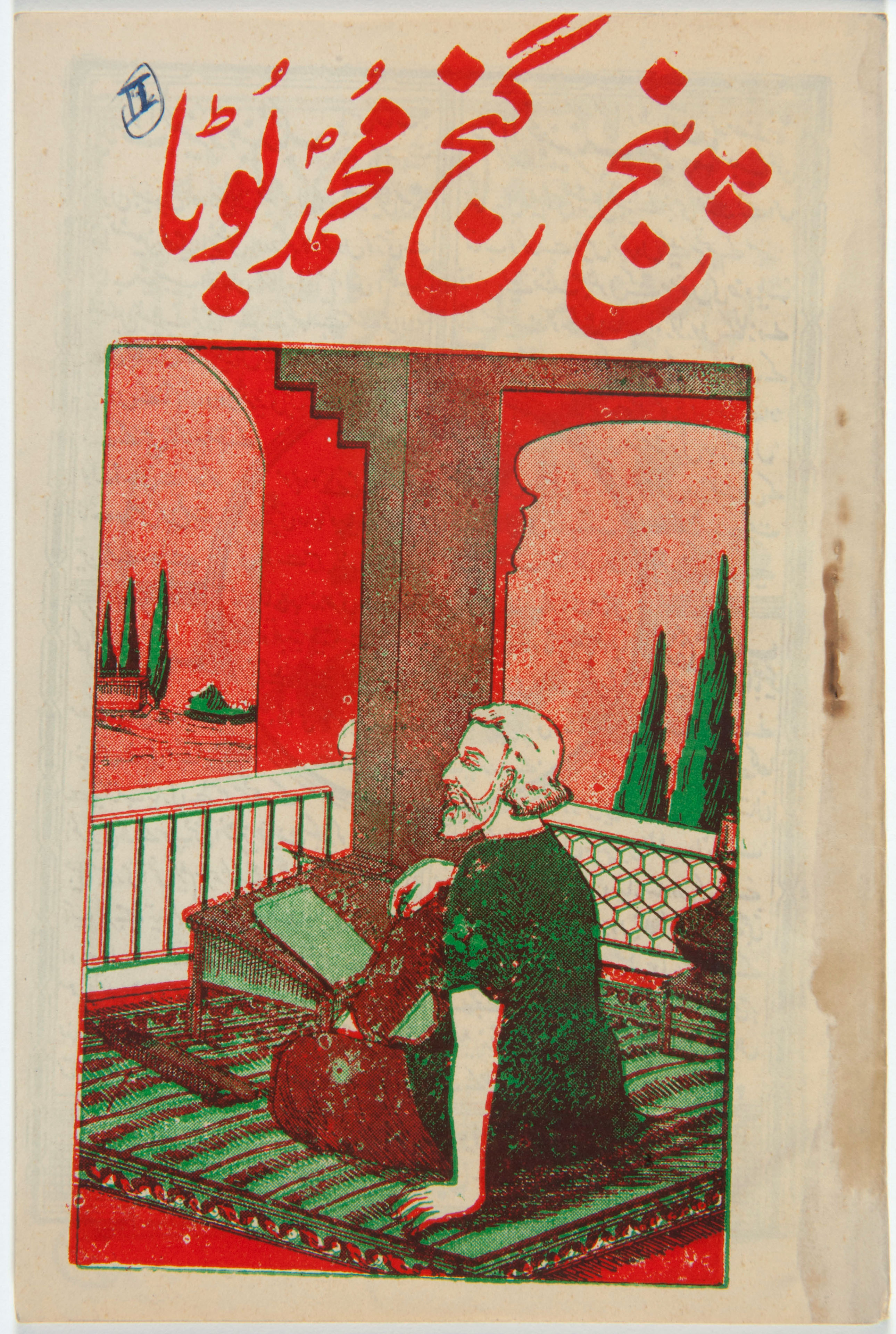 Collected by Josephine Powell.